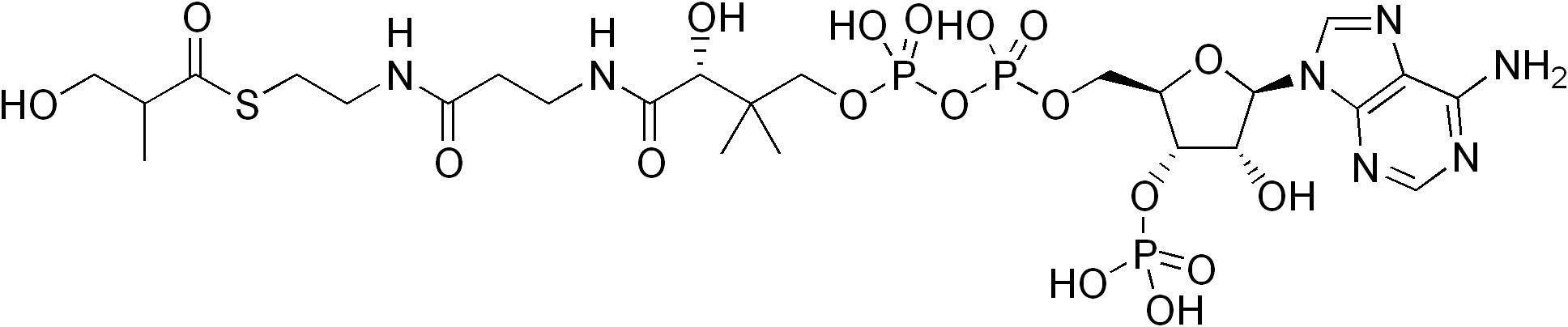 chemical structure of 3-Hydroxyisobutyryl-CoA